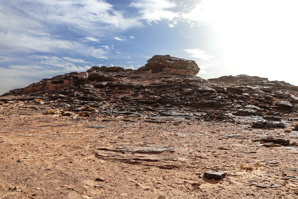 Agrour d'Amojjar: the cliffs